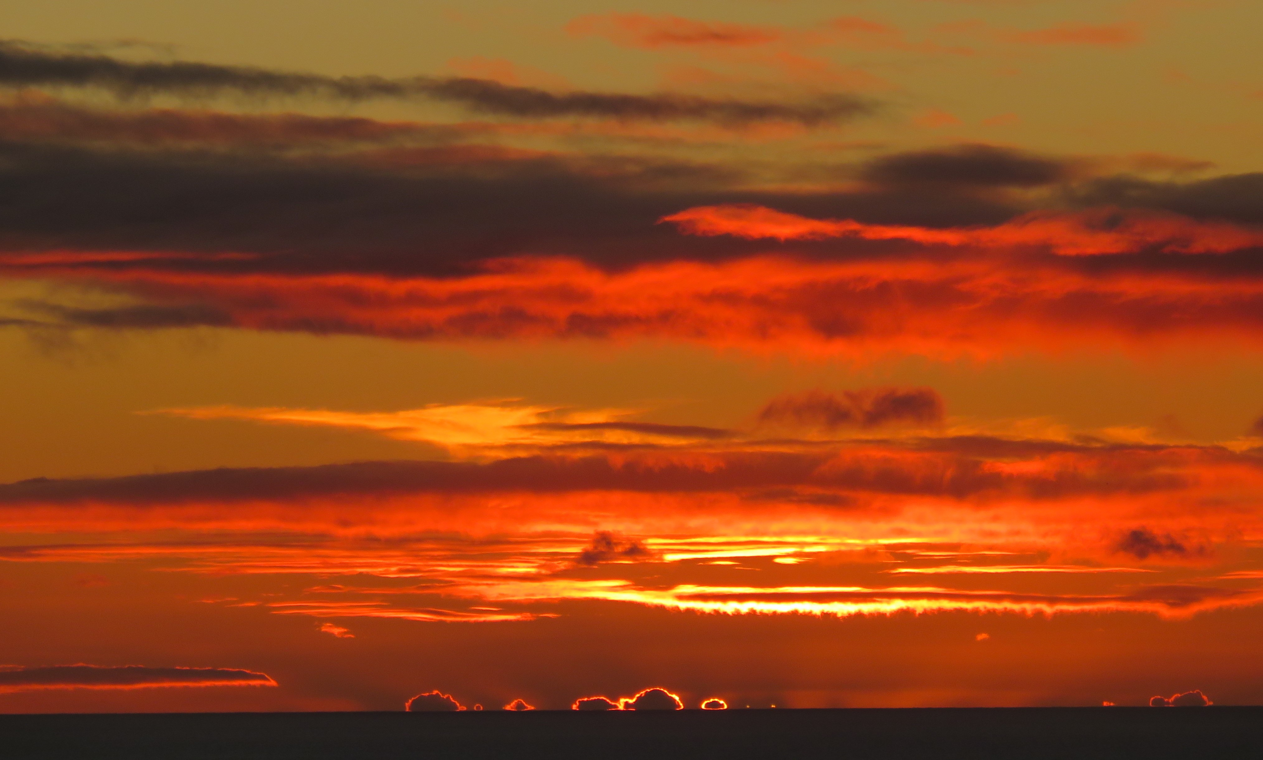 Sunset in Villa Tazacorte, beyond the horizon (45.4 km from the observer at a height of 134 meters) sunlit clouds that partly protrude above the curvature of the earth.